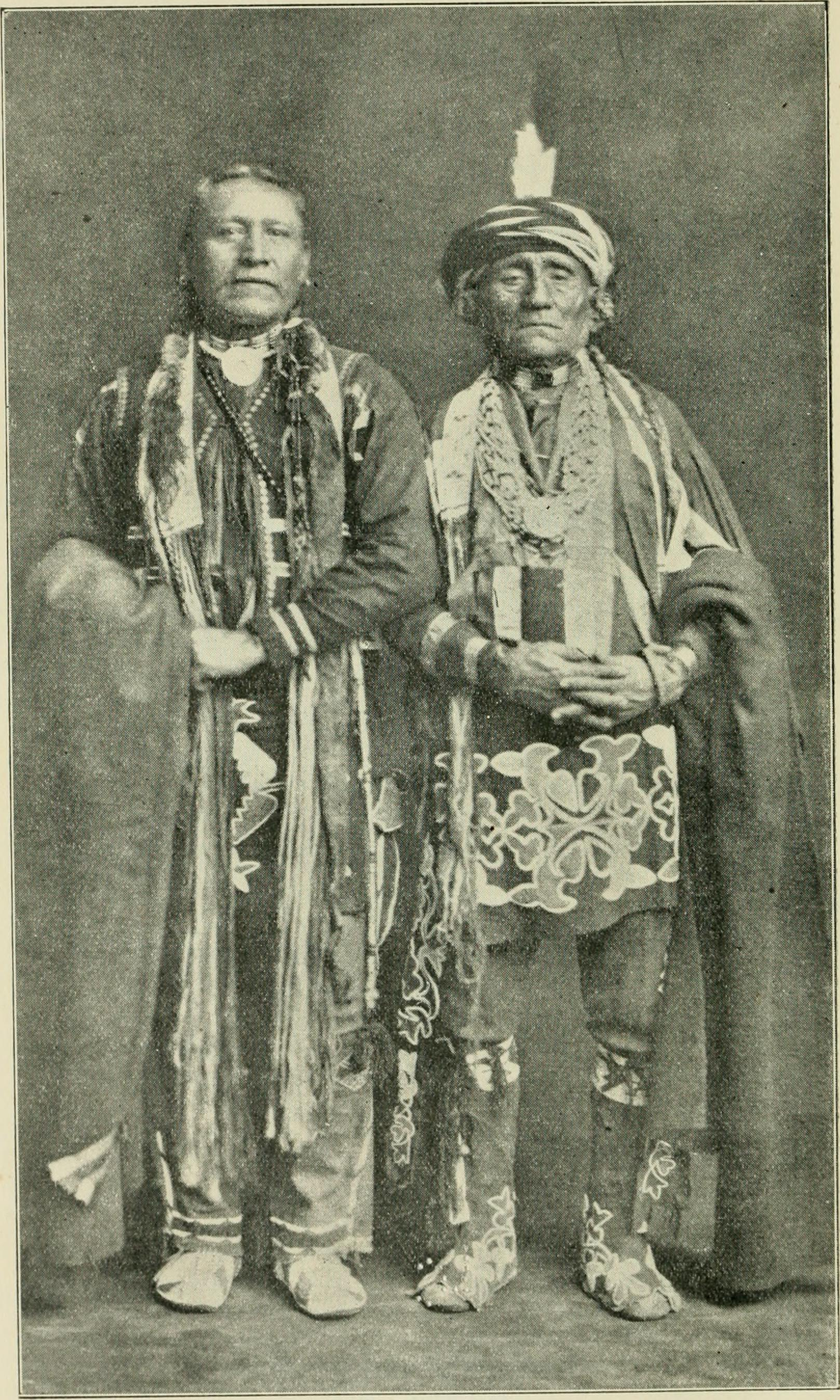 Title: The Kansa, or Kaw Indians, and their history, and the story of Padilla Year: 1908 (1900s) Authors: Morehouse, George Pierson, 1859- (from old catalog) Subjects: Padilla, Juan de, d. 1542. (from old catalog) Kansa Indians Publisher: Topeka, State print. off. Text Appearing Before Image: ' Text Appearing After Image: WAH-MOH-O-E-KE.the second signer of the last treaty. WAH-SHUN-GAH,the last chief of the Kansa. Gift HISTORY OF THE KANSA OR KAW INDIANS. Address by George P. Morehouse, of Topeka, before the Kansas State Historical Society,at its thirty-first annual meeting, December 4, 1906. VNYTHING pertaining to the Indian tribe that gave a name to our com-monwealth and to the largest river and city within its borders willalways have a pecuhar interest to all true Kansans and to .those who areever eager to know more about the early history of the Sunflower state. The majority of the tribes resident in Kansas during the past centurywere immigrants, brought here from Eastern states within the memory ofthose now living—the remnants of nations whose important history tookplace on the other side of the Mississippi river. These immigrant tribesnever had that strong attachment for their new home they would have pos-sessed had they been to the manor born. Not so with the Kansa nation. Its earliest recordkansaorkawindian00more